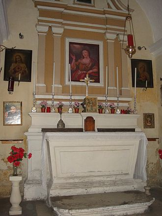 Interior of St Agatha Chapel in Żurrieq, Malta